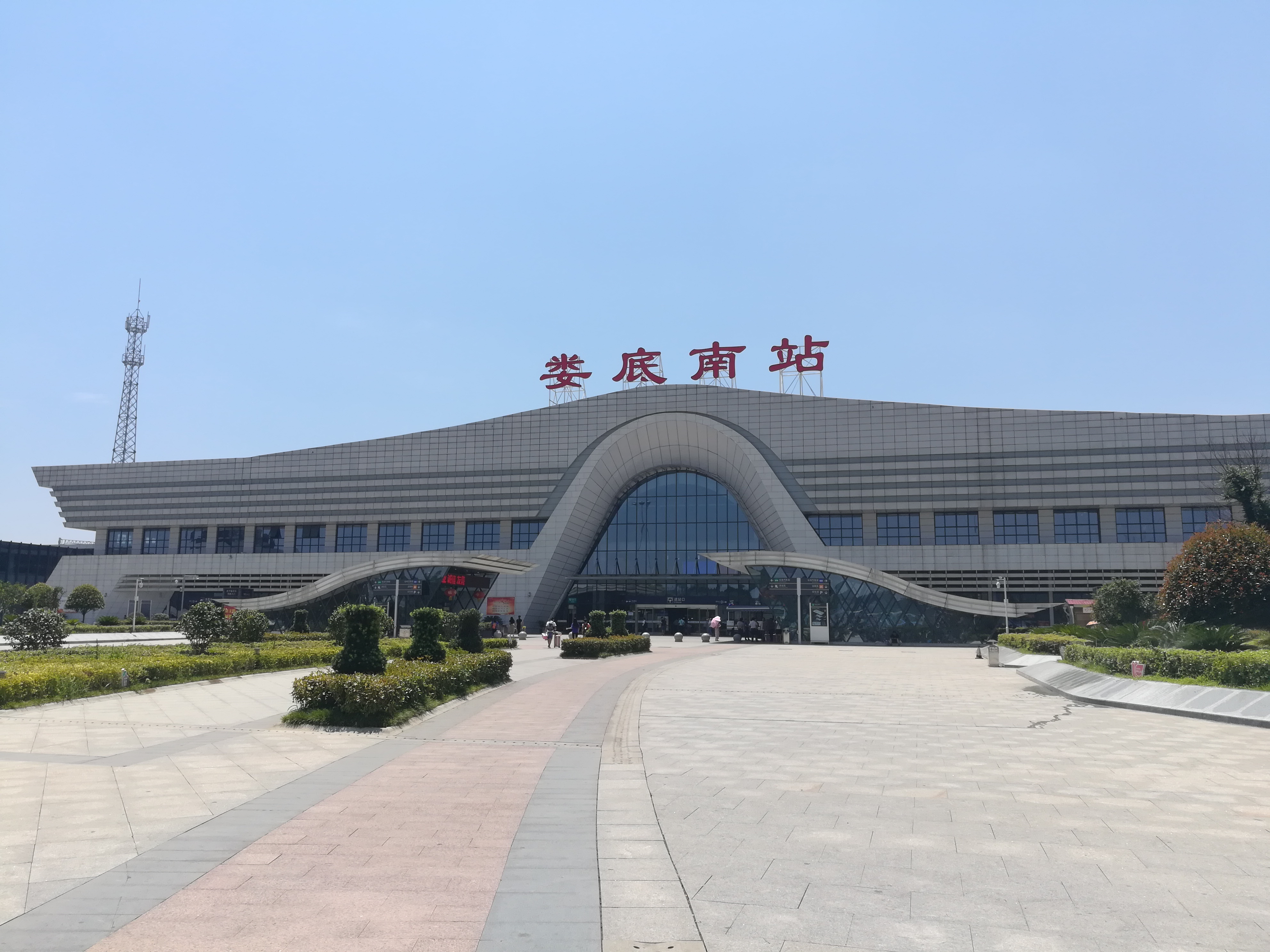 Loudi South railway station is a railway station of Hangchangkun Passenger Railway located in Hunan, China.